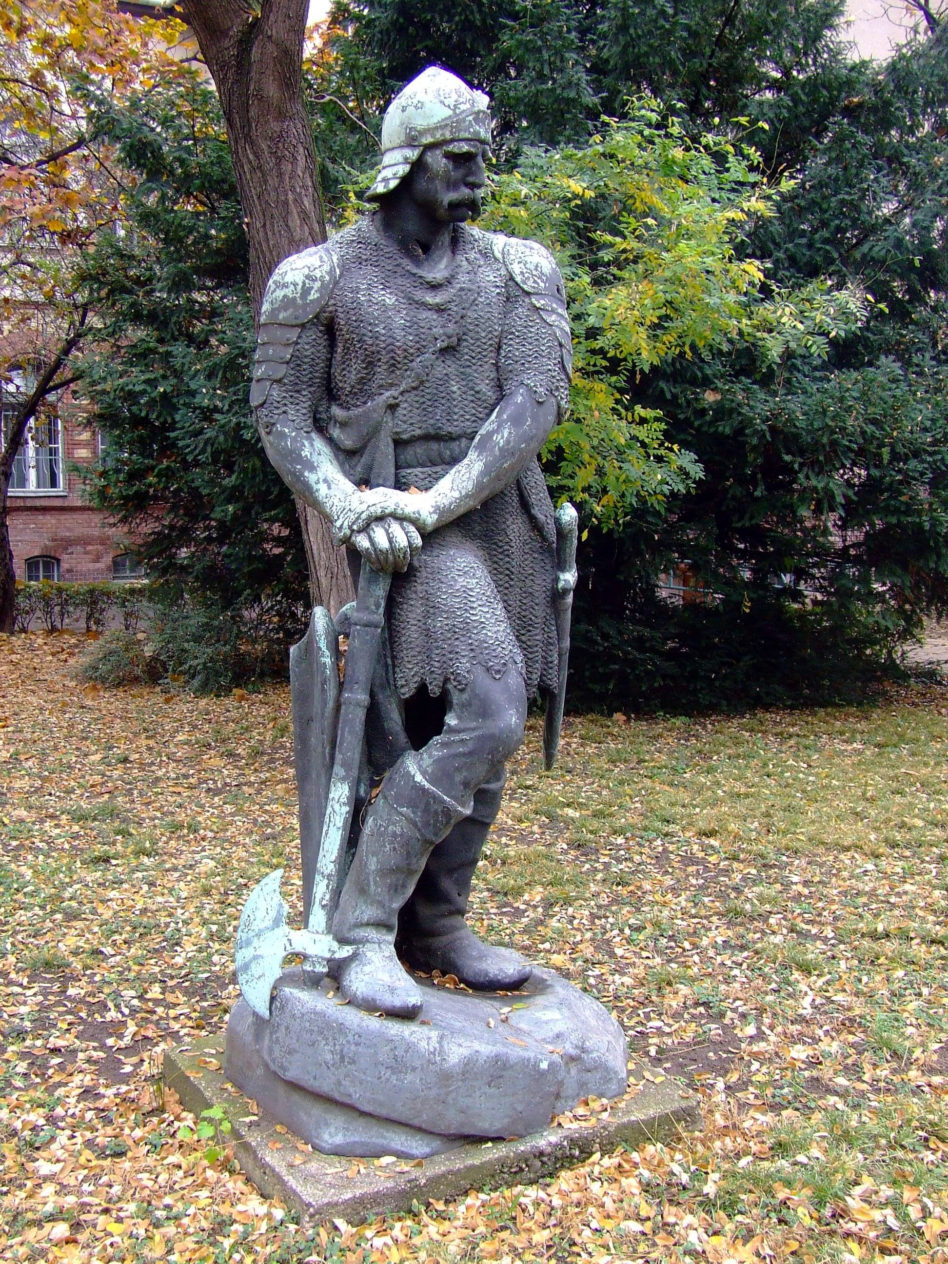 Statue of Pál Kinizsi. Sculptor: János Pásztor